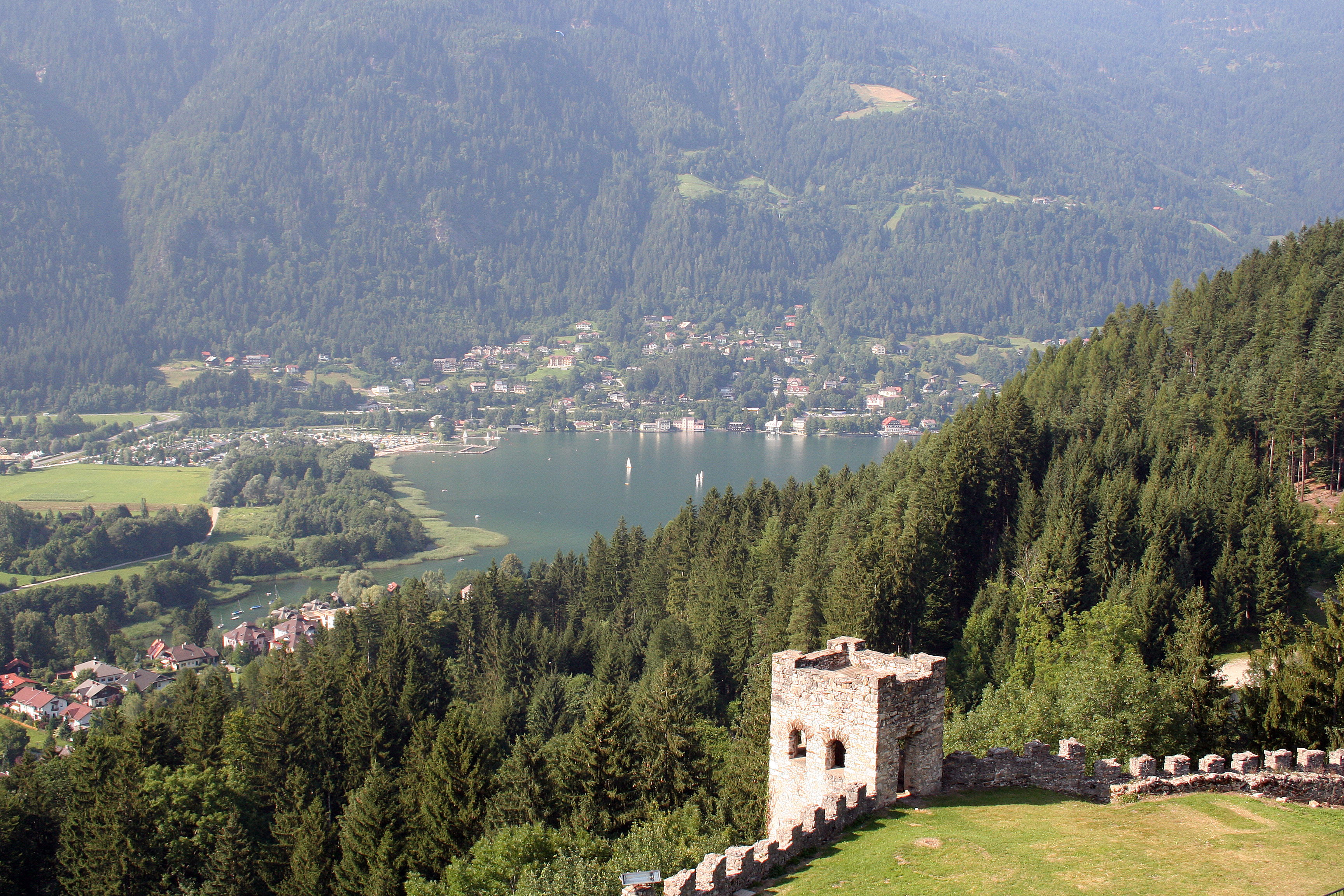 Burgruine Landskron mit Ossiacher See - Landskron castle with Lake Ossiach. Across the Lake: Annenheim (village within the community of Treffen)